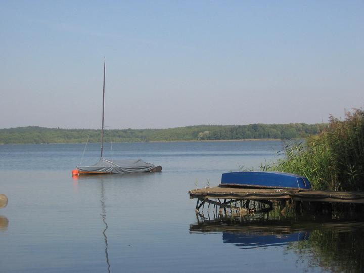 „Rangsdorfer See“ (lake) in Rangsdorf, Landkreis (rural district) Teltow-Fläming, Brandenburg; in the south of Berlin